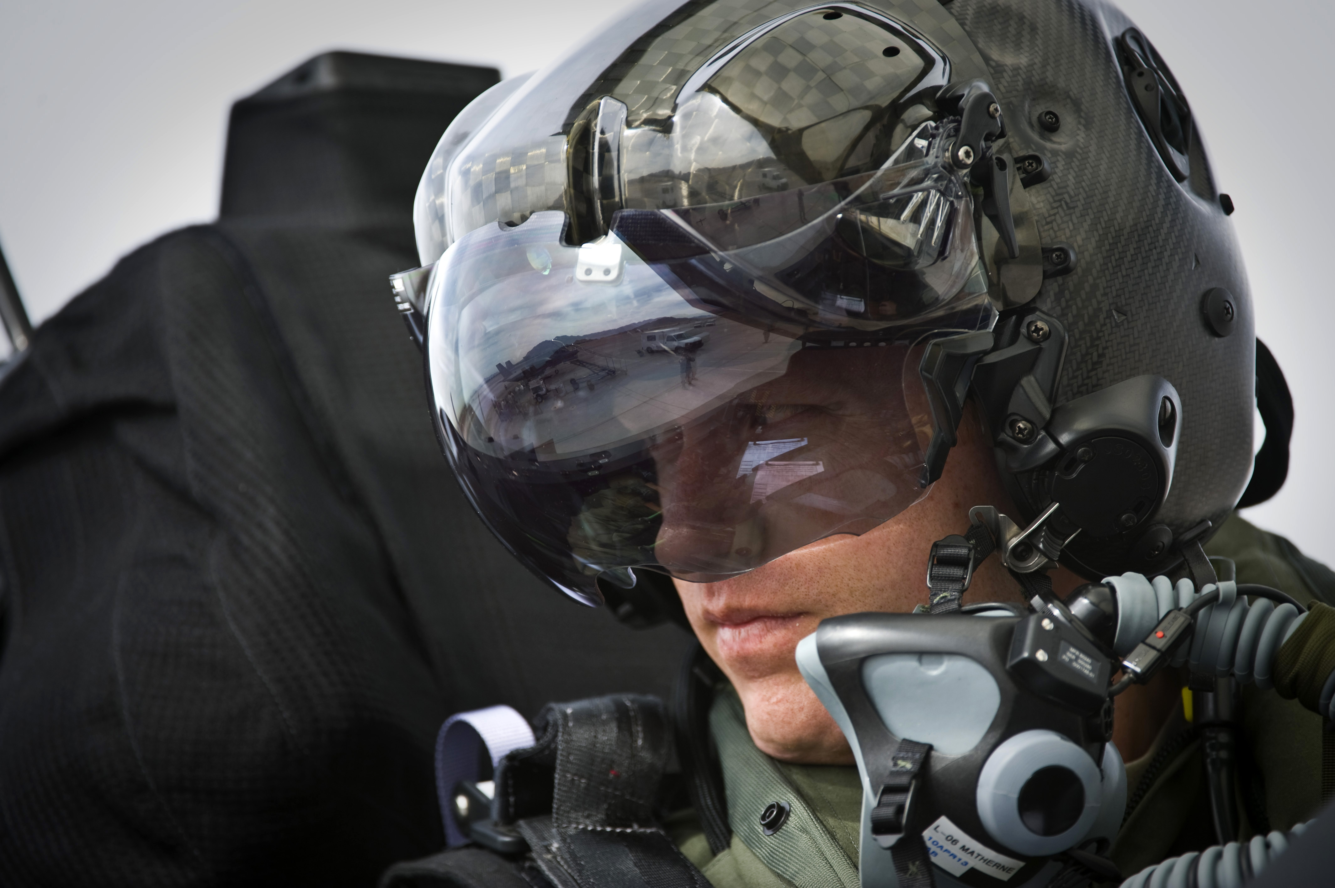 U.S. Air Force Capt. Brad Matherne, a pilot with the 422nd Test and Evaluation Squadron, taxis an F-35A Lightning II aircraft before its first operational training mission April 4, 2013, at Nellis Air Force Base, Nev. The squadron was designated as the authority responsible for integrating the F-35A into the Air Force inventory. (U.S. Air Force photo by Senior Airman Brett Clashman/Received)